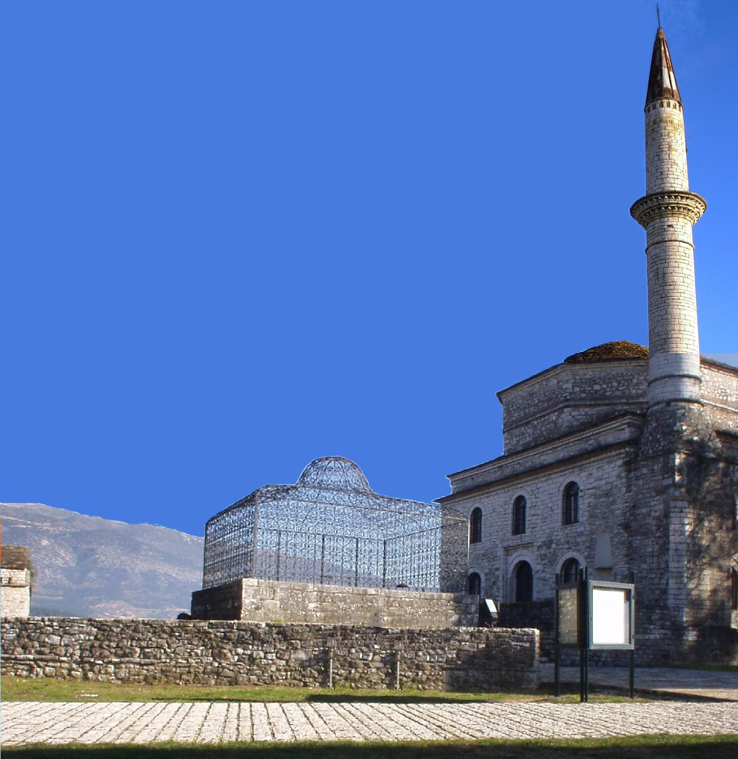 Ali Pasha Tepelena tomb and Fetihe mosque